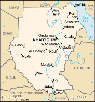 CIA Factbook Map of Sudan